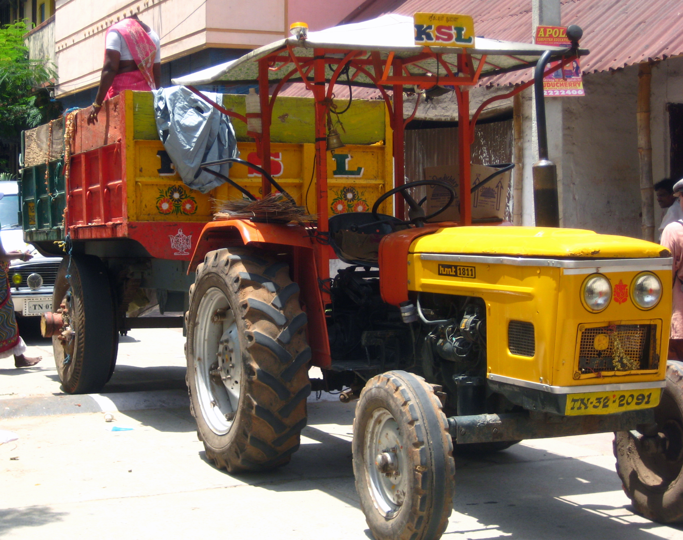 Old HMT 1811 tractor in Pondicherry